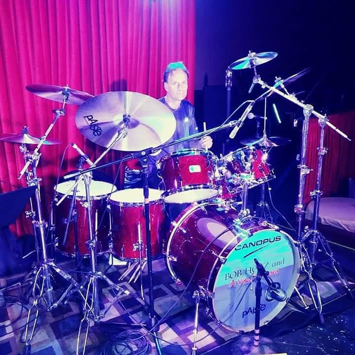 Bob Holz performing at Catalina Jazz Club in Los Angeles, CA in 2018.